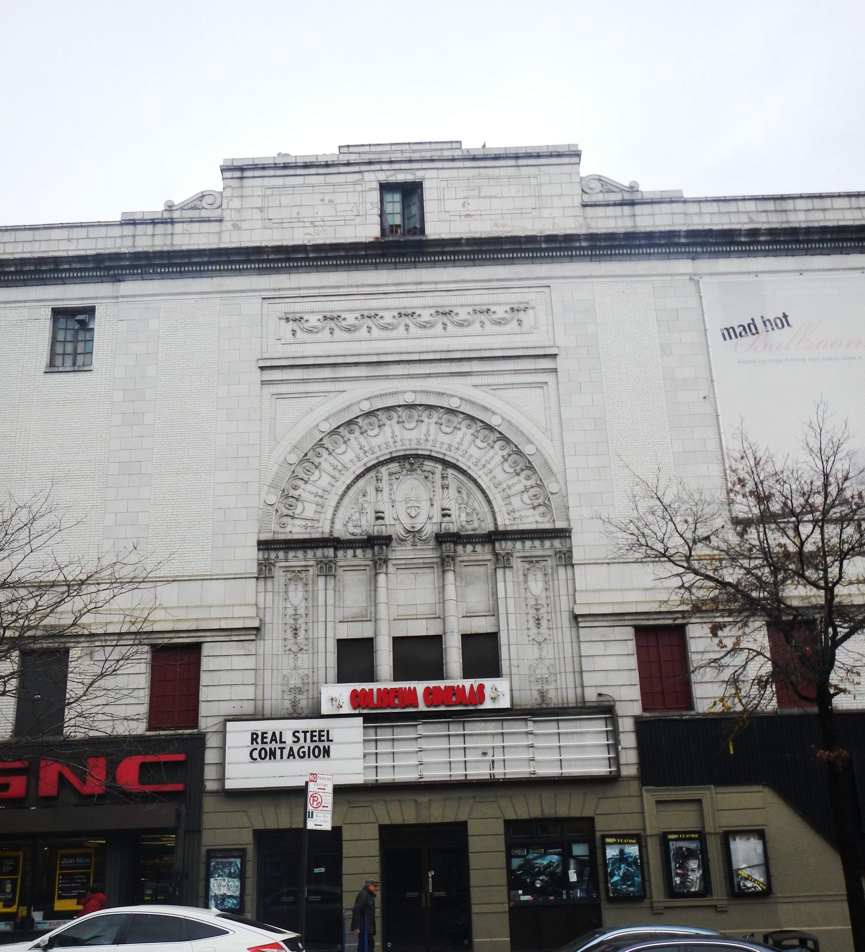 Looking north at Coliseum Cinemas, west of Broadway on a cloudy day in winter.